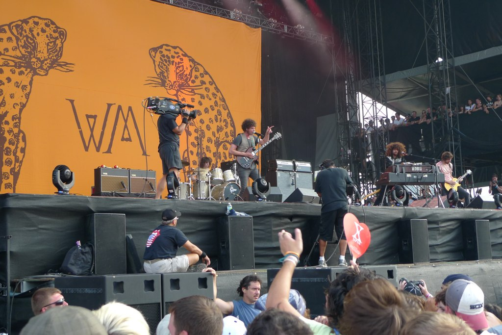 Wolfmother performing at the music festival Lollapalooza on 10 August 2010. From left to right: Will Rockwell-Scott, Andrew Stockdale, Ian Peres and Aidan Nemeth.